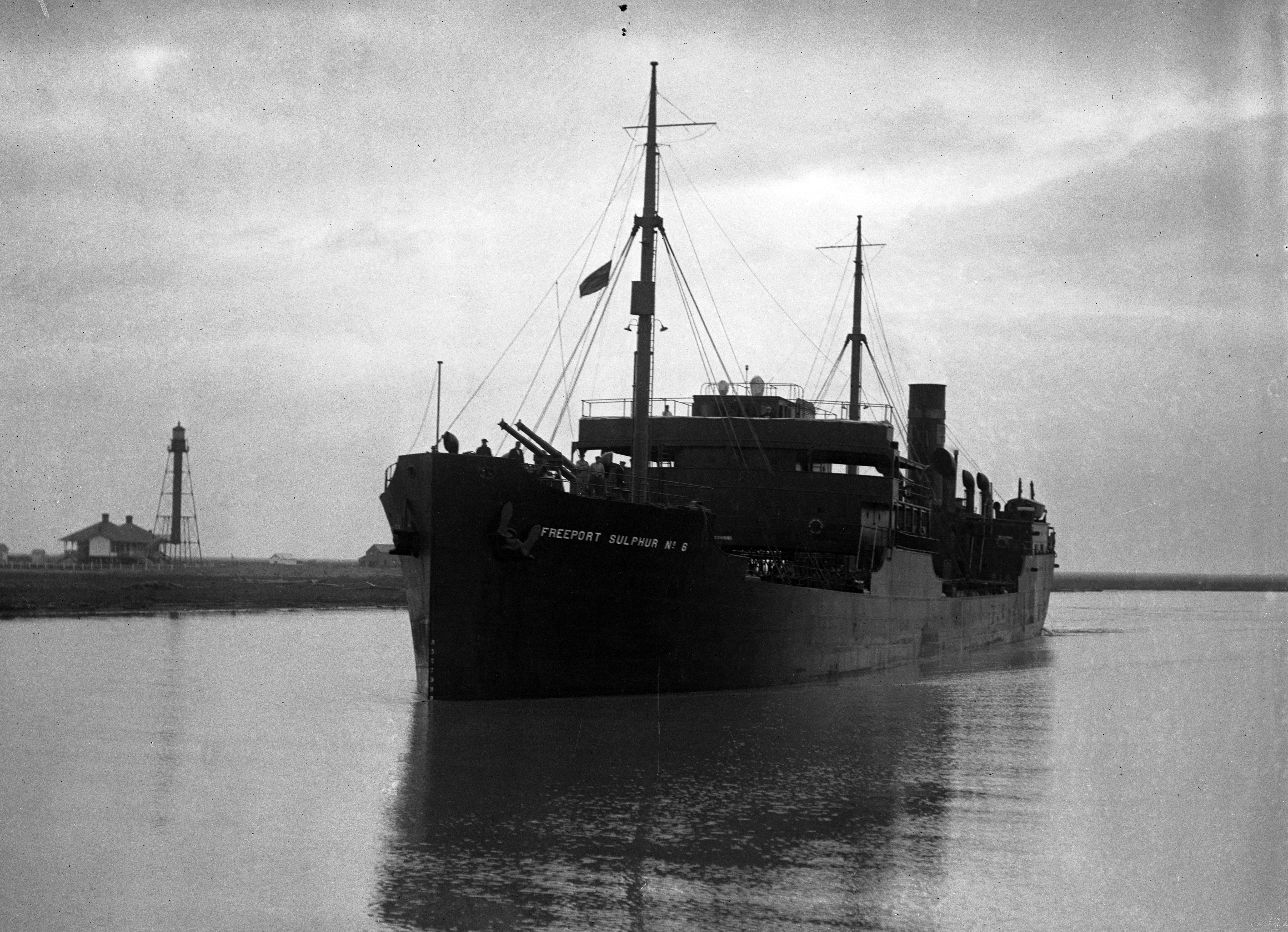 Title: Full length view of ship, Freeport Sulphur No.6, carrying Phil Alguin entering Brazos River